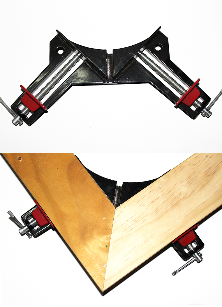 cheap miter clamp